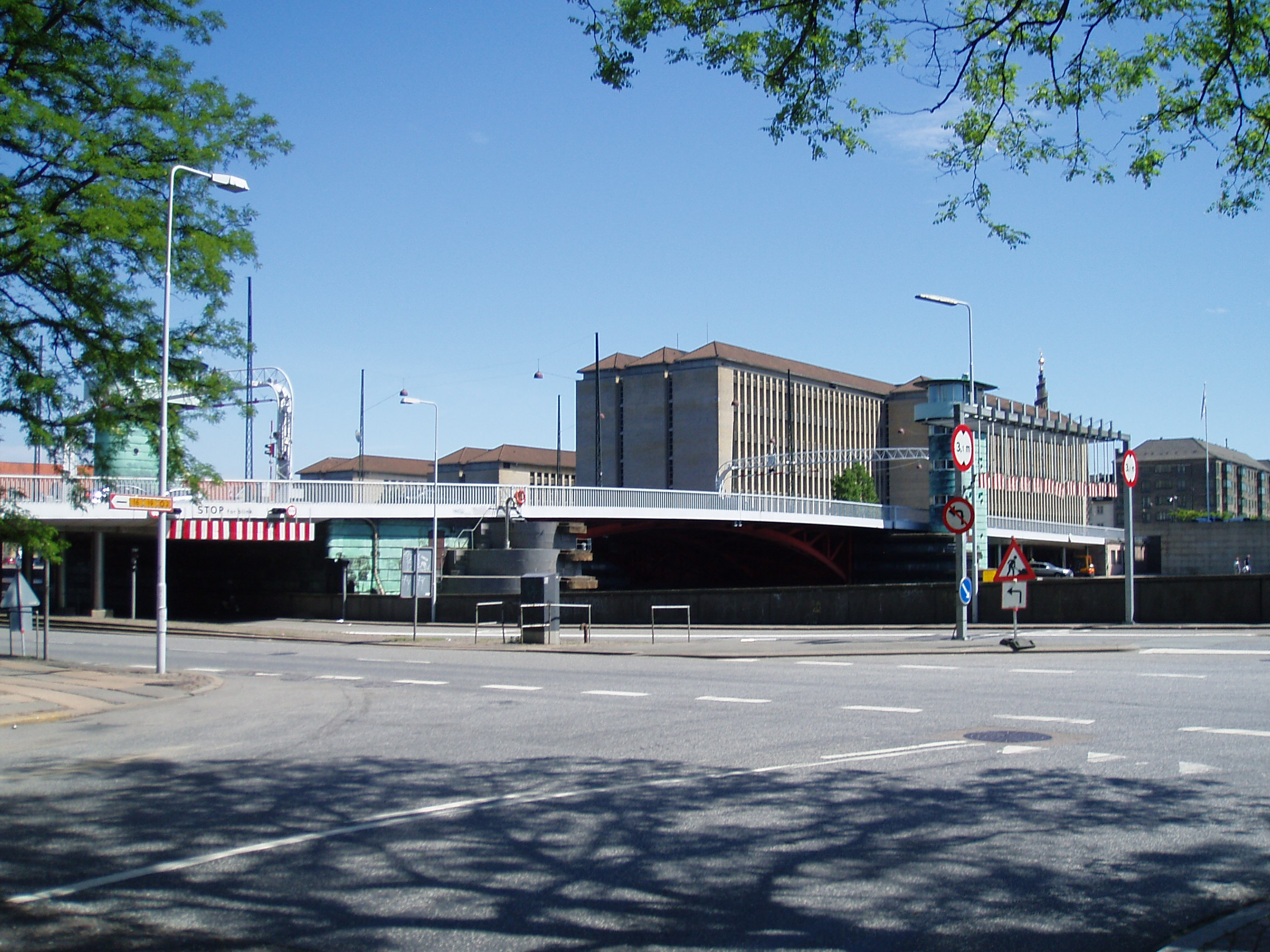 Knippelsbro in Copenhagen seen from Slotsholmsgade towards the Ministry of Foreign Affairs. Due to several accidents the maximum heigth above the crossing street has been made more clear.